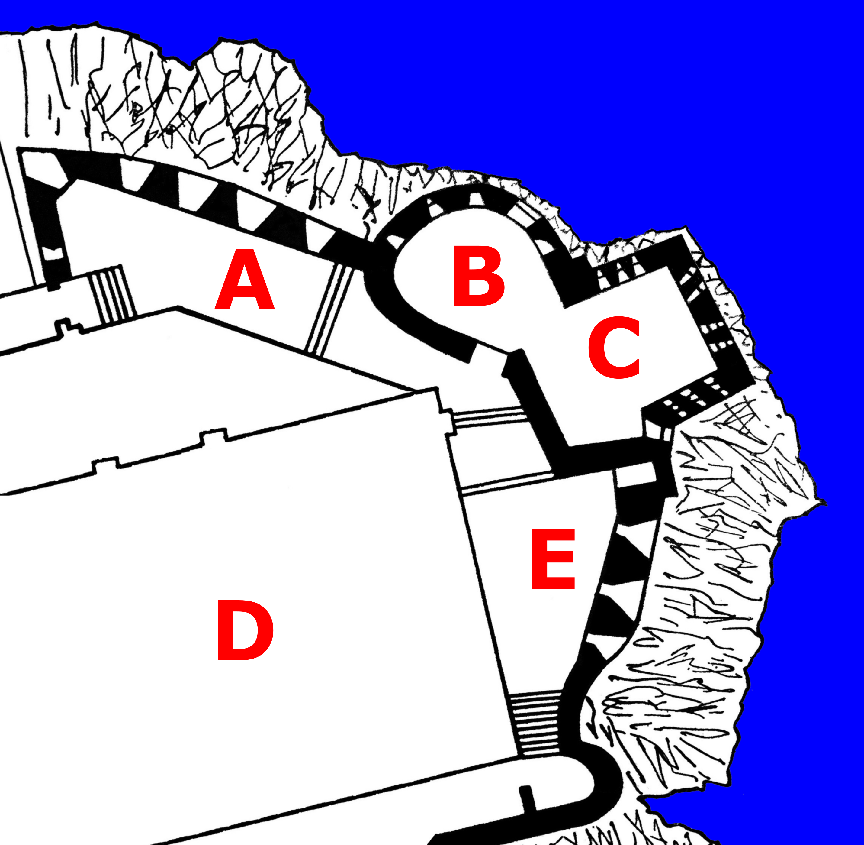 Dartmouth Castle diagram labelled